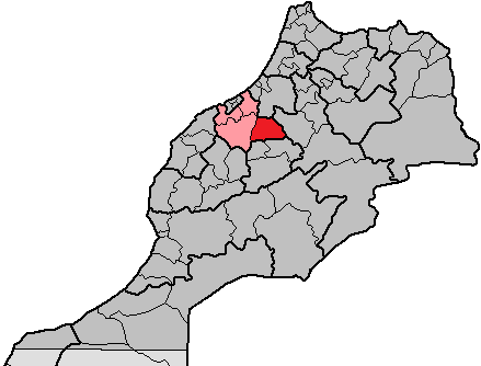 Location of the province Khouribga in the region Chaouia-Ouardigha, Morocco.